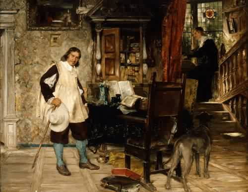 Oliver Cromwell visists Mr John Milton